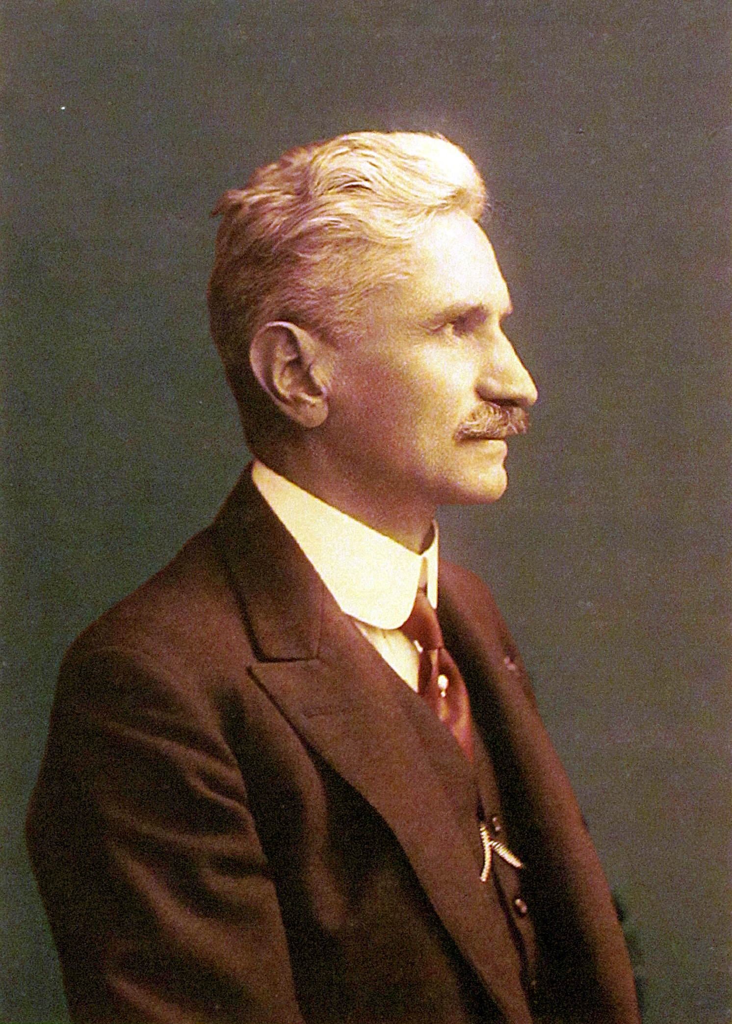 Miroslav Spalajković Serbian diplomat